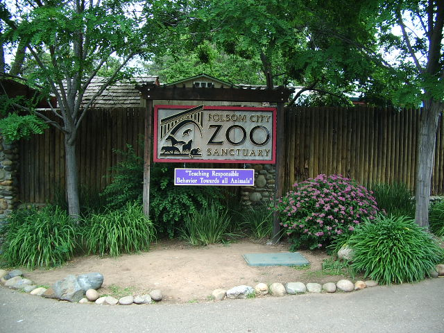 Sign near the entrance to the Folsom City Zoo Sanctuary, Folsom, California